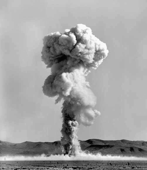 Nevada Test Site. Coulomb-C safety test, December 9, 1957. The test produced an unanticipated yield of 500 tons TNT equivalent.